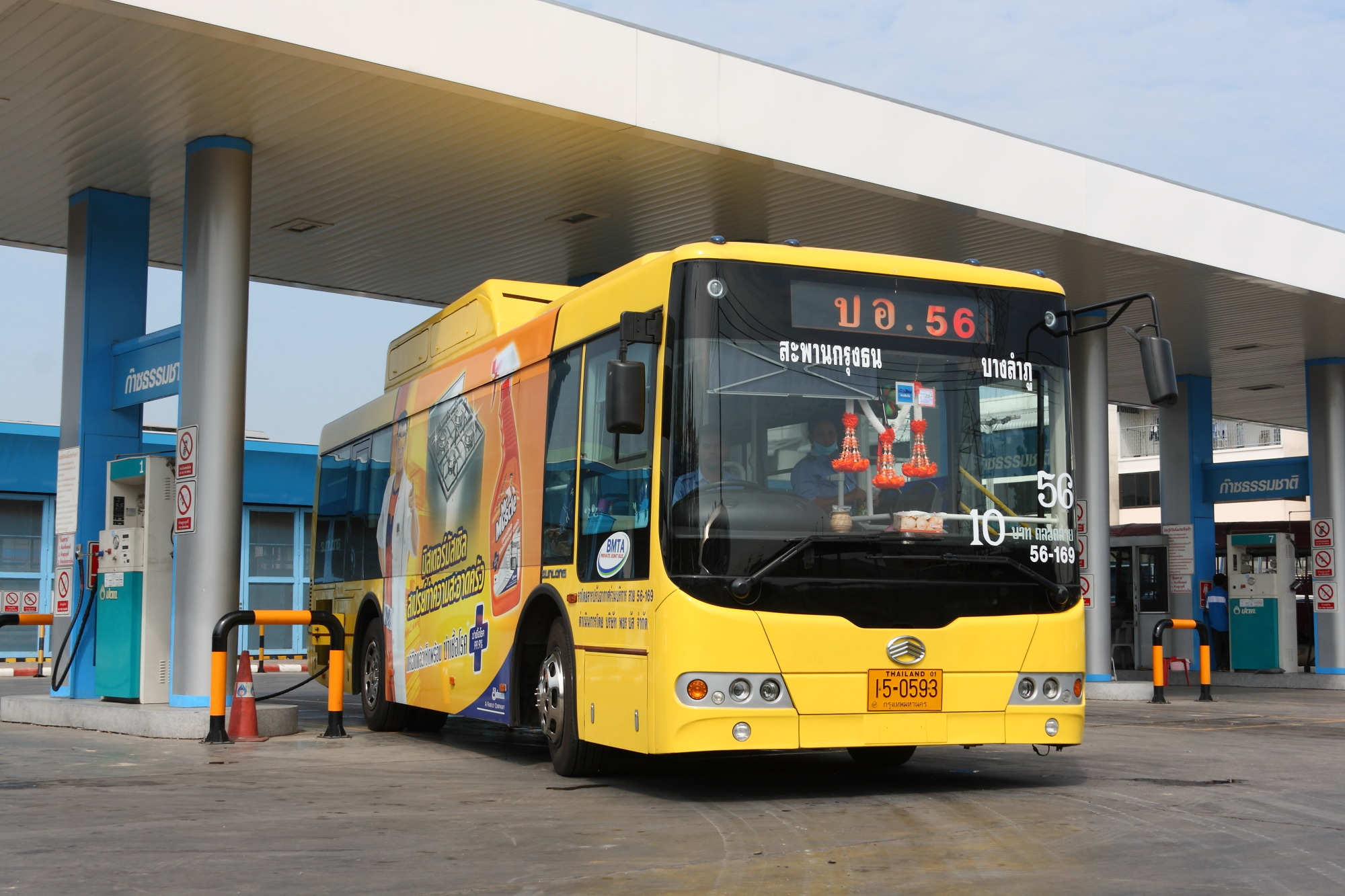 SunLong SLK6985CNG in Bangkok, Thailand